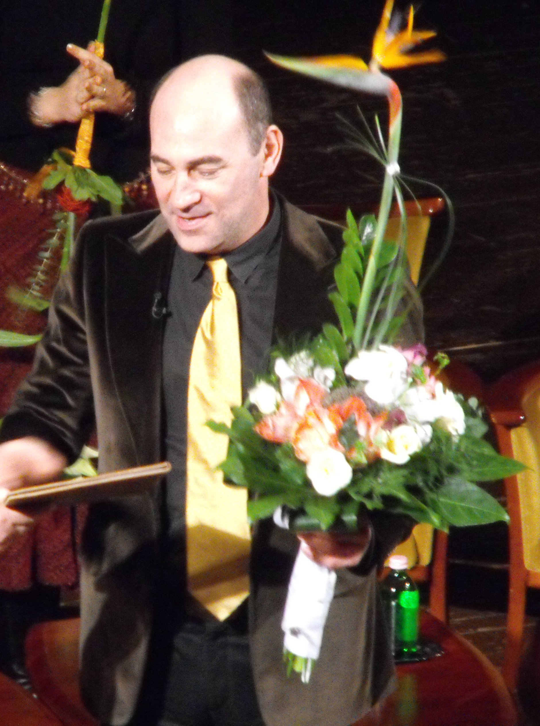 János Kulka, Hungarian actor in Makó in the Onion House, receiving the Páger Award.